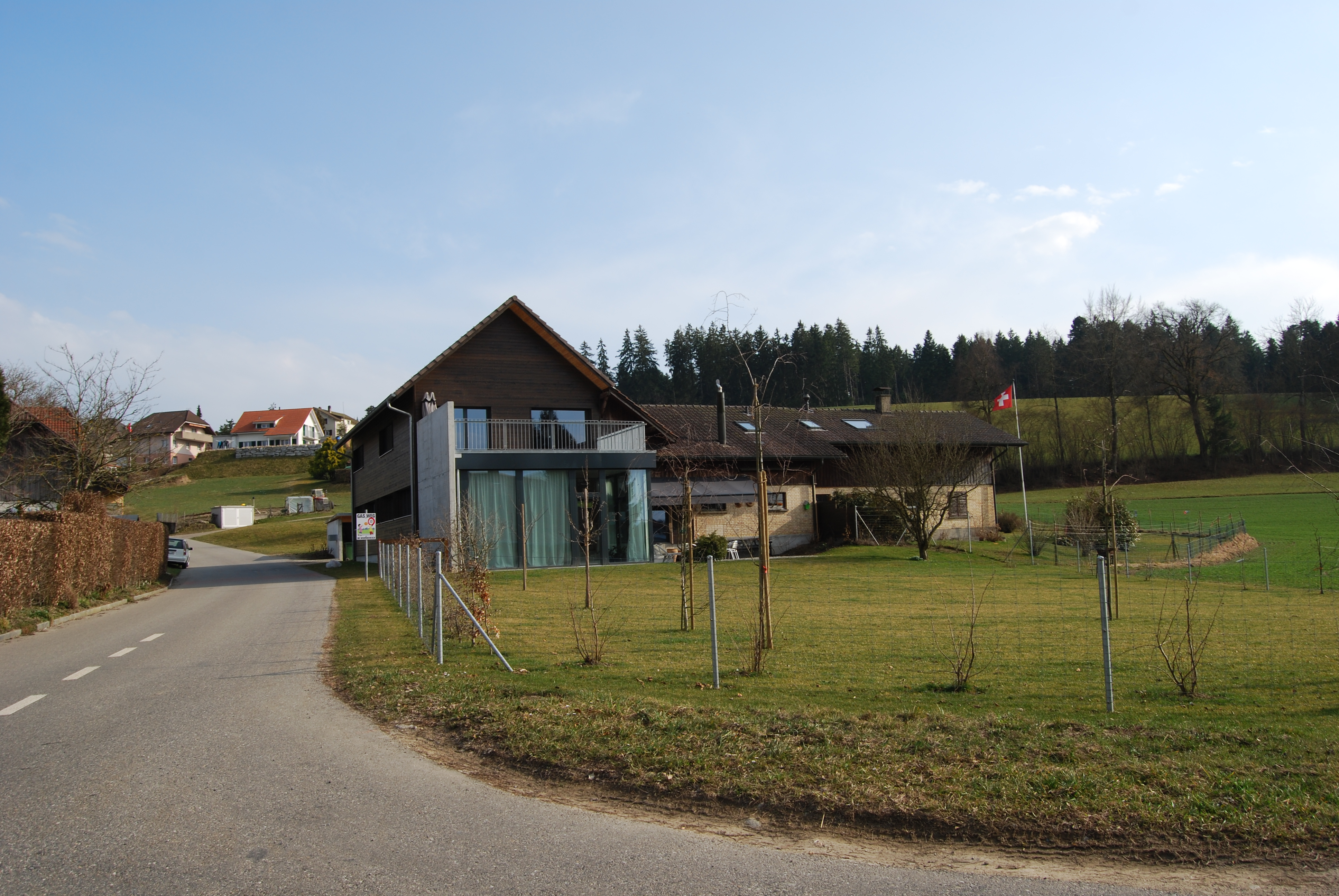 Obersteckholz, canton of Bern, SwitzerlandEsperanto: Obersteckholz, Kantono Berno, Svislando